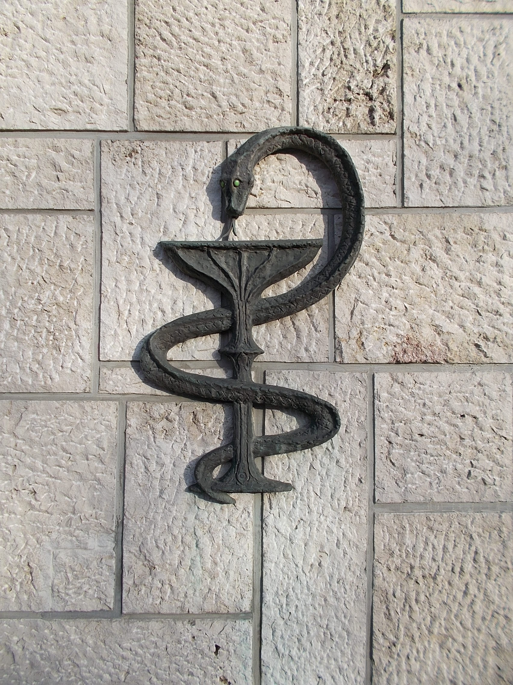 Listed building complex. ID -8313. Hungarian Art Nouveau style building. Architect: István Medgyaszay. - 56 Németvölgyi út Budapest District XII., Hungary.